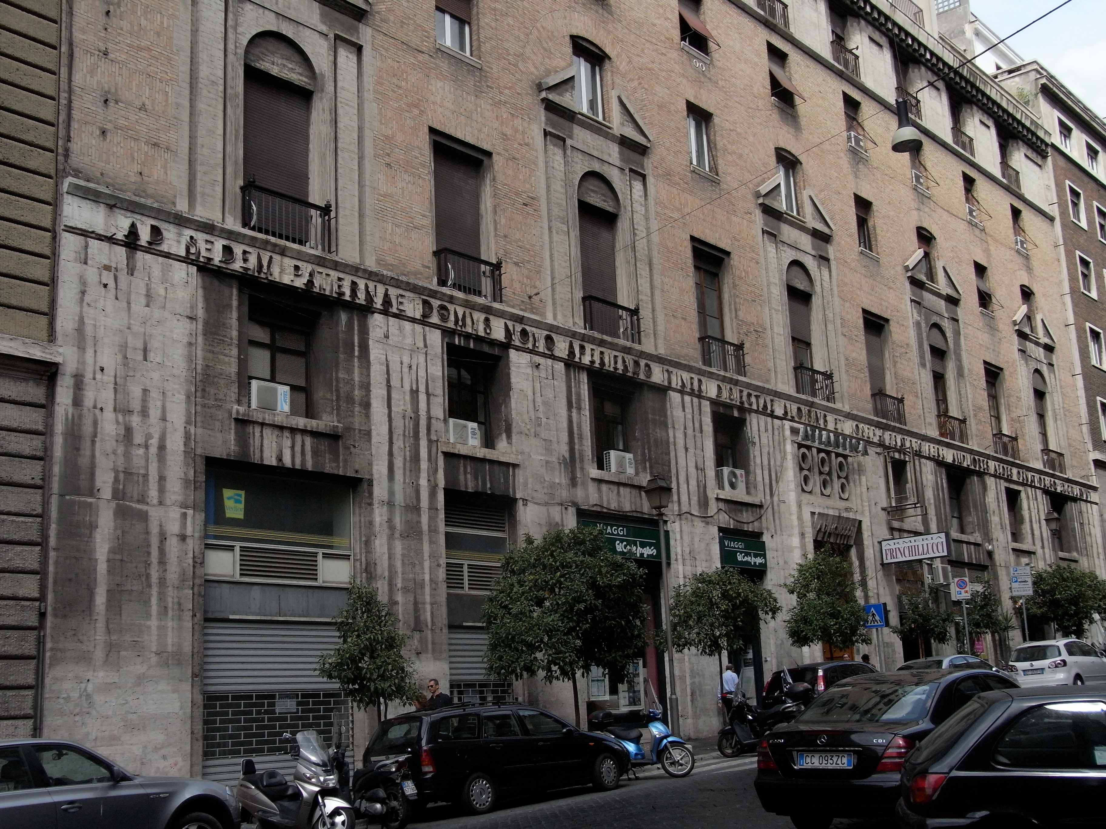 Via Barberini 31 in Rome